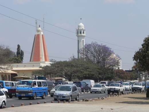 Independence Avenue with mosque and Hindu temple in background.